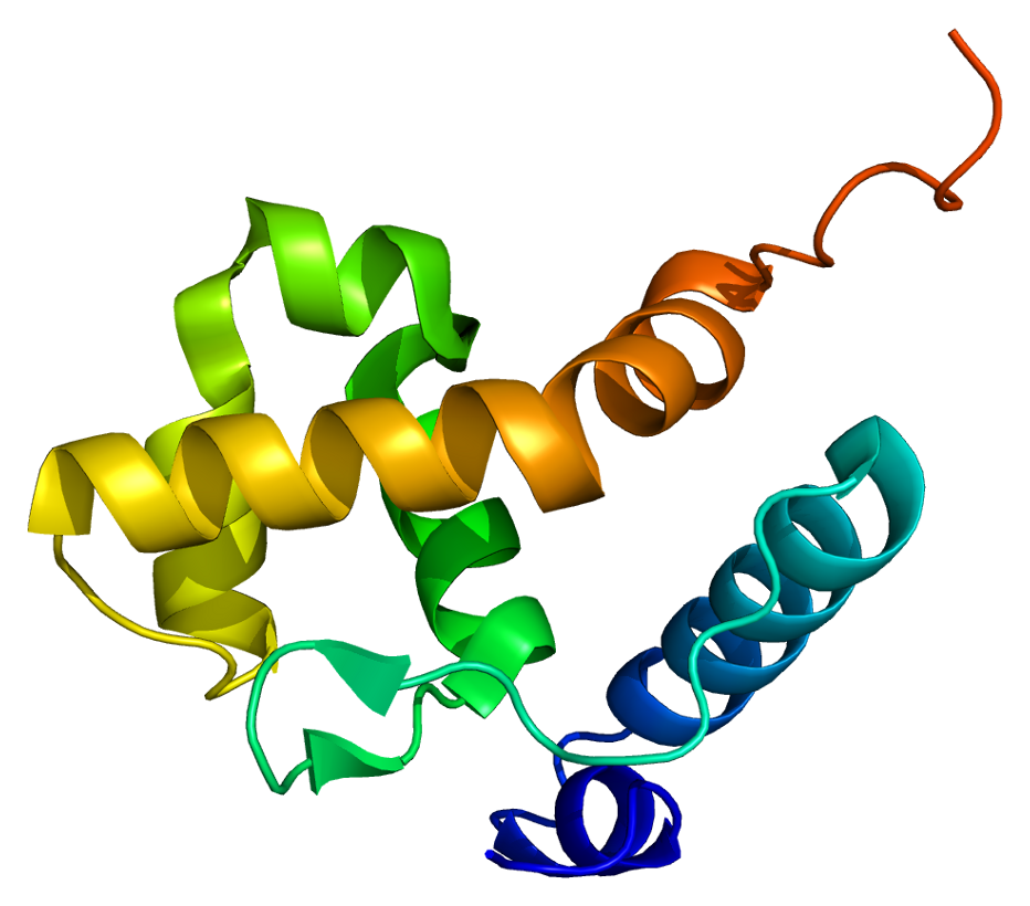 Structure of the ARID1B protein. Based on PyMOL rendering of PDB 2cxy.